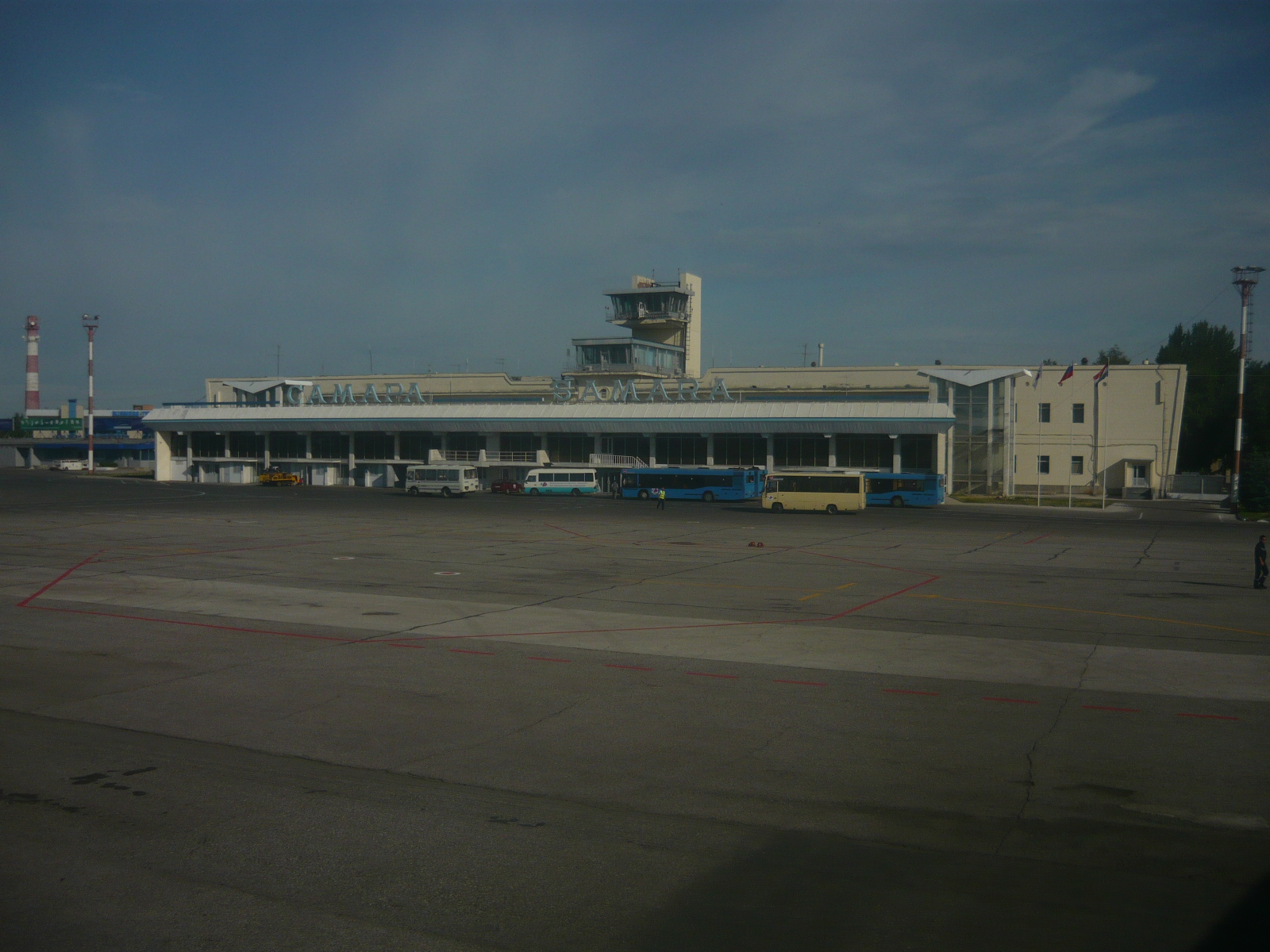 Airport Samara Russia Terminal